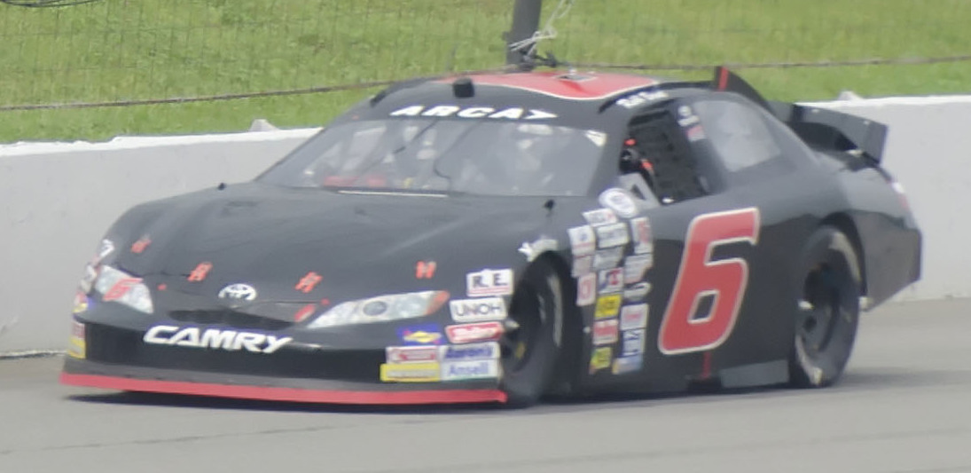 Robb Brent's No. 6 Eddie Sharp Racing Toyota at Pocono Raceway in 2011